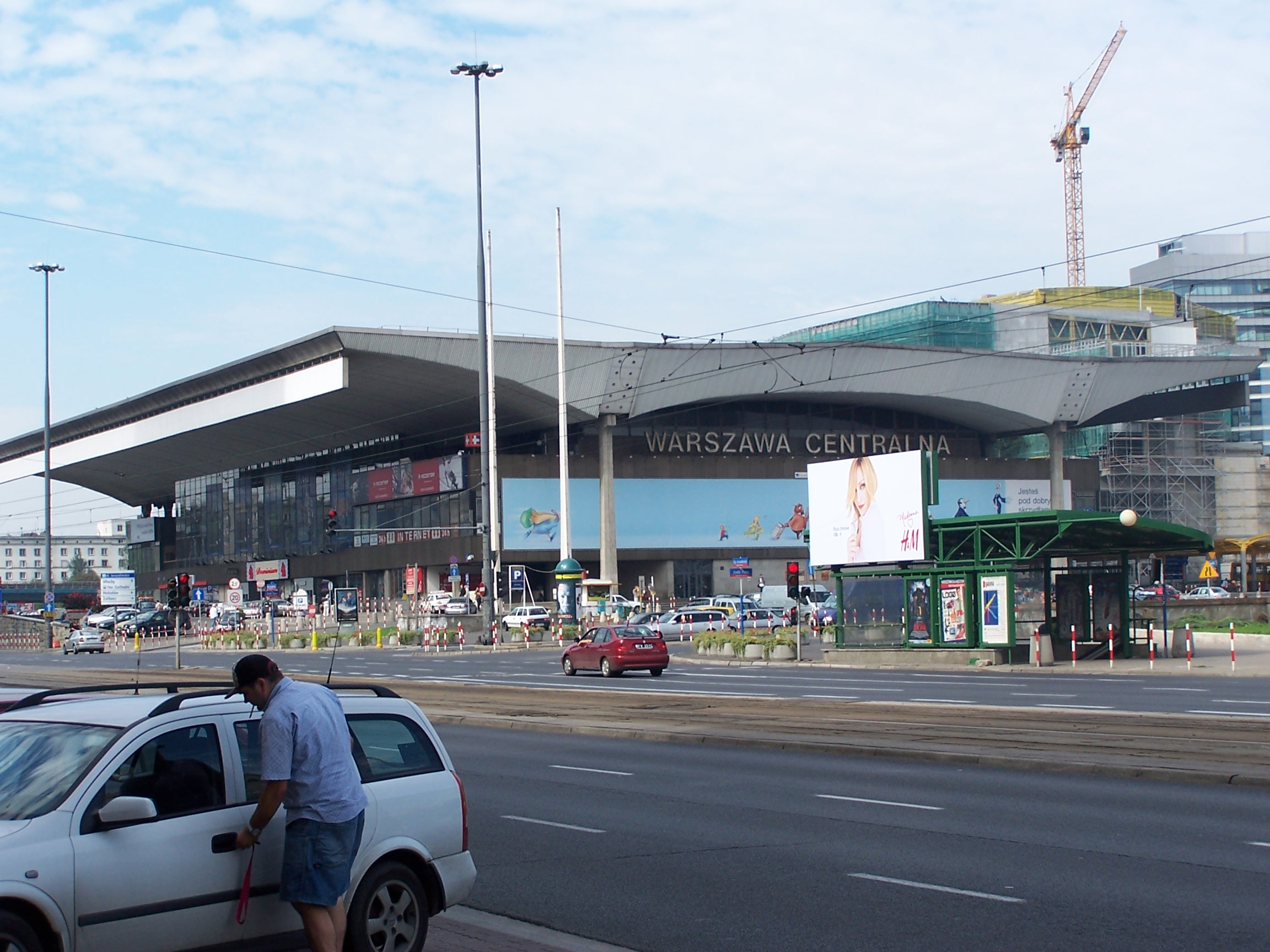 Photo by Piotrus. Warszawa Centralna train station.